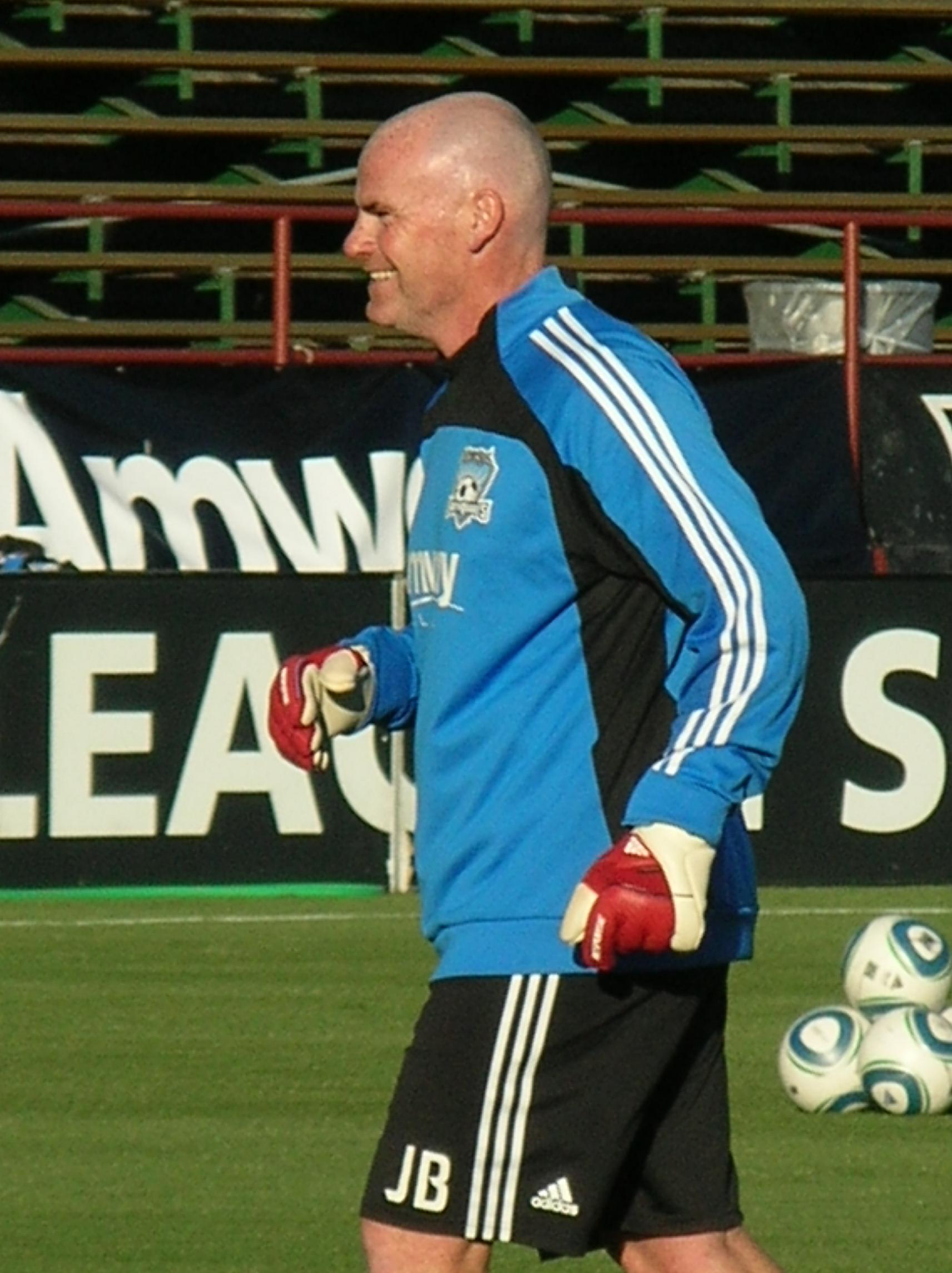 San Jose Earthquakes goalkeepers coach Jason Batty before a home game against the Philadelphia Union. The Earthquakes won 1-0.